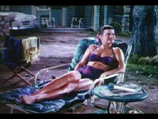 Jean Peters on a lounge chair in the theatrical trailer of the 1953 film Niagara directed by Henry Hathaway.